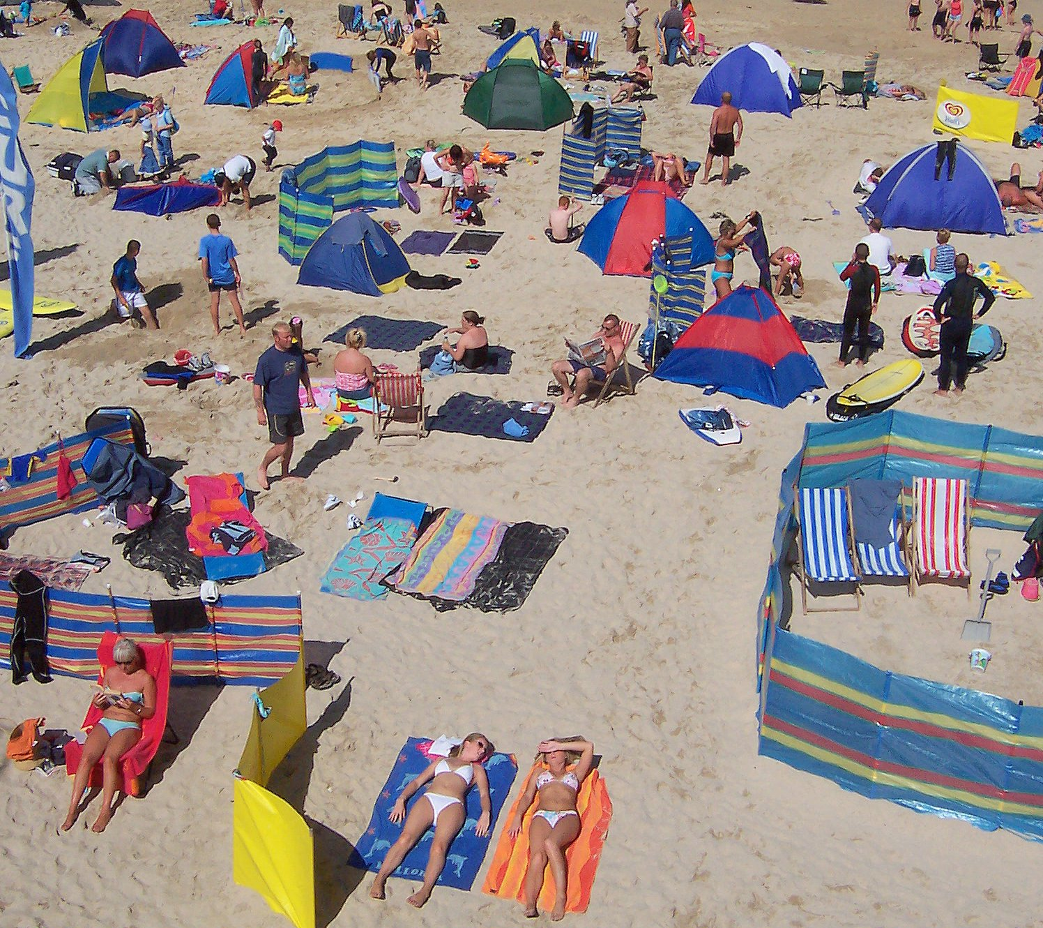 People sunbathing on a beach in St Ives, Cornwall, England, UK. Photo taken at 2004.St Ives